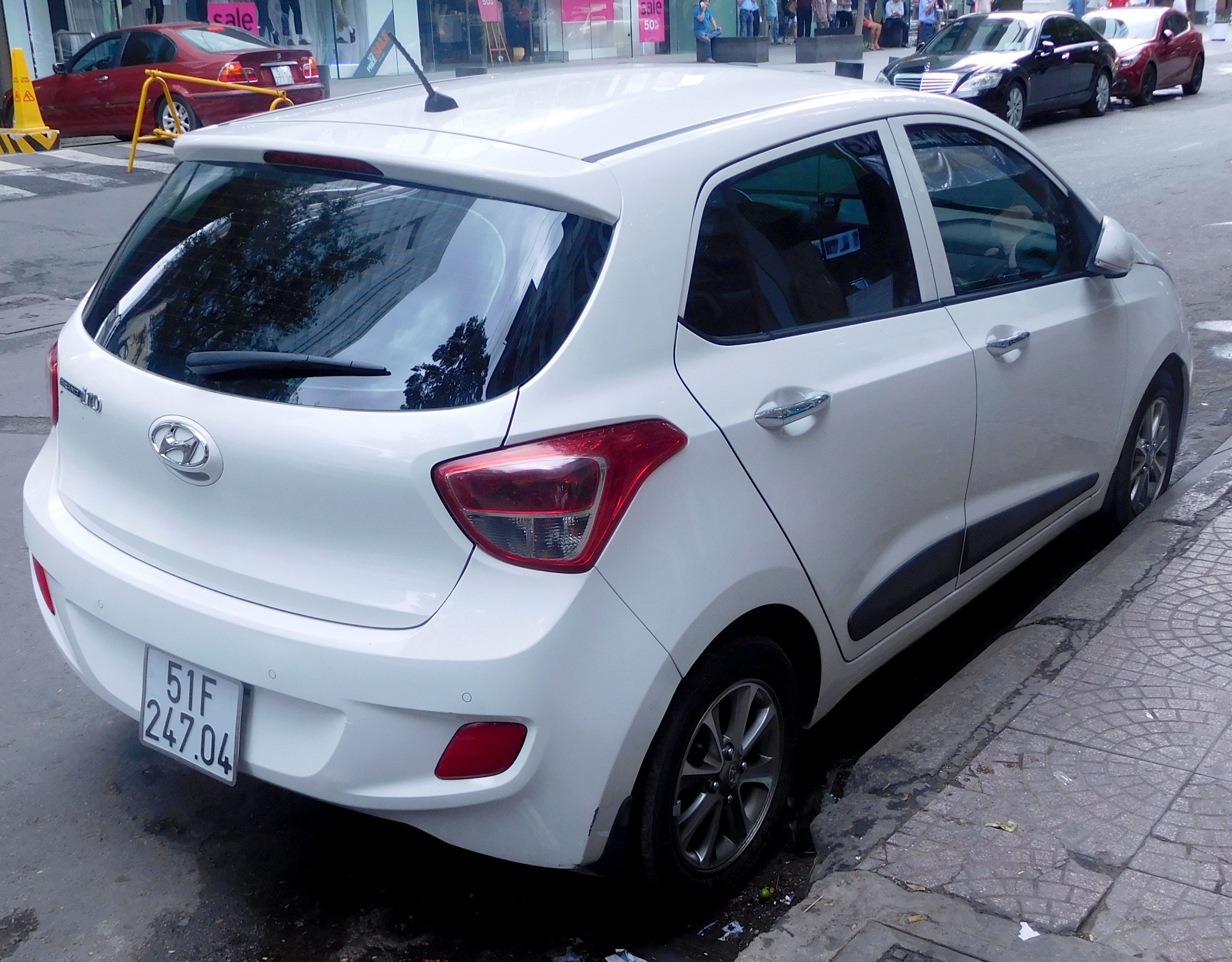 Hyundai Grand i10, photographed in Ho Chi Minh City, Vietnam.